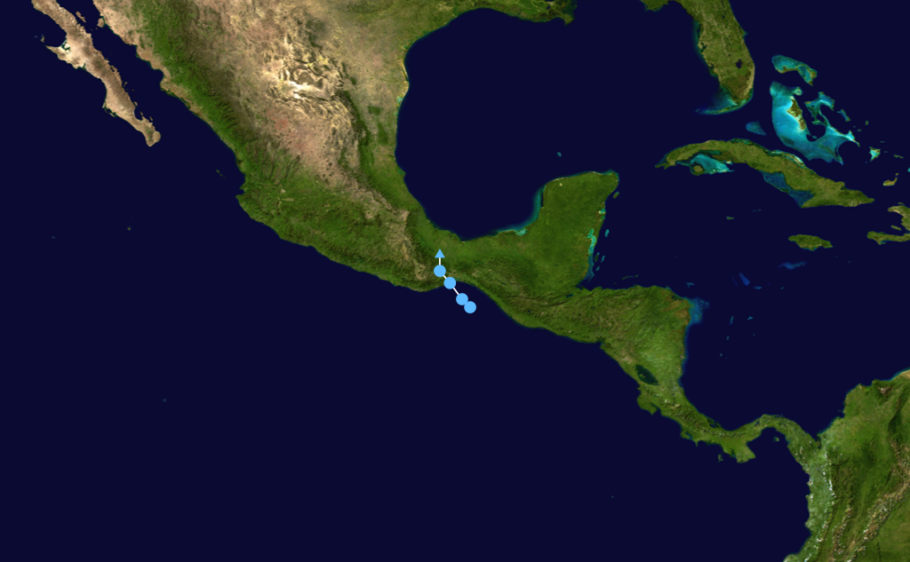 Track map of Tropical Depression 11-E of the 2010 Pacific hurricane season. The points show the location of the storm at 6-hour intervals. The colour represents the storm's maximum sustained wind speeds as classified in the Saffir-Simpson Hurricane Scale (see below), and the shape of the data points represent the nature of the storm, according to the legend below. Saffir–Simpson scale Tropical depression≤38 mph≤62 km/h Category 3111–129 mph178–208 km/h Tropical storm39–73 mph63–118 km/h Category 4130–156 mph209–251 km/h Category 174–95 mph119–153 km/h Category 5≥157 mph≥252 km/h Category 296–110 mph154–177 km/h Unknown Storm type Tropical cyclone Subtropical cyclone Extratropical cyclone / Remnant low / Tropical disturbance